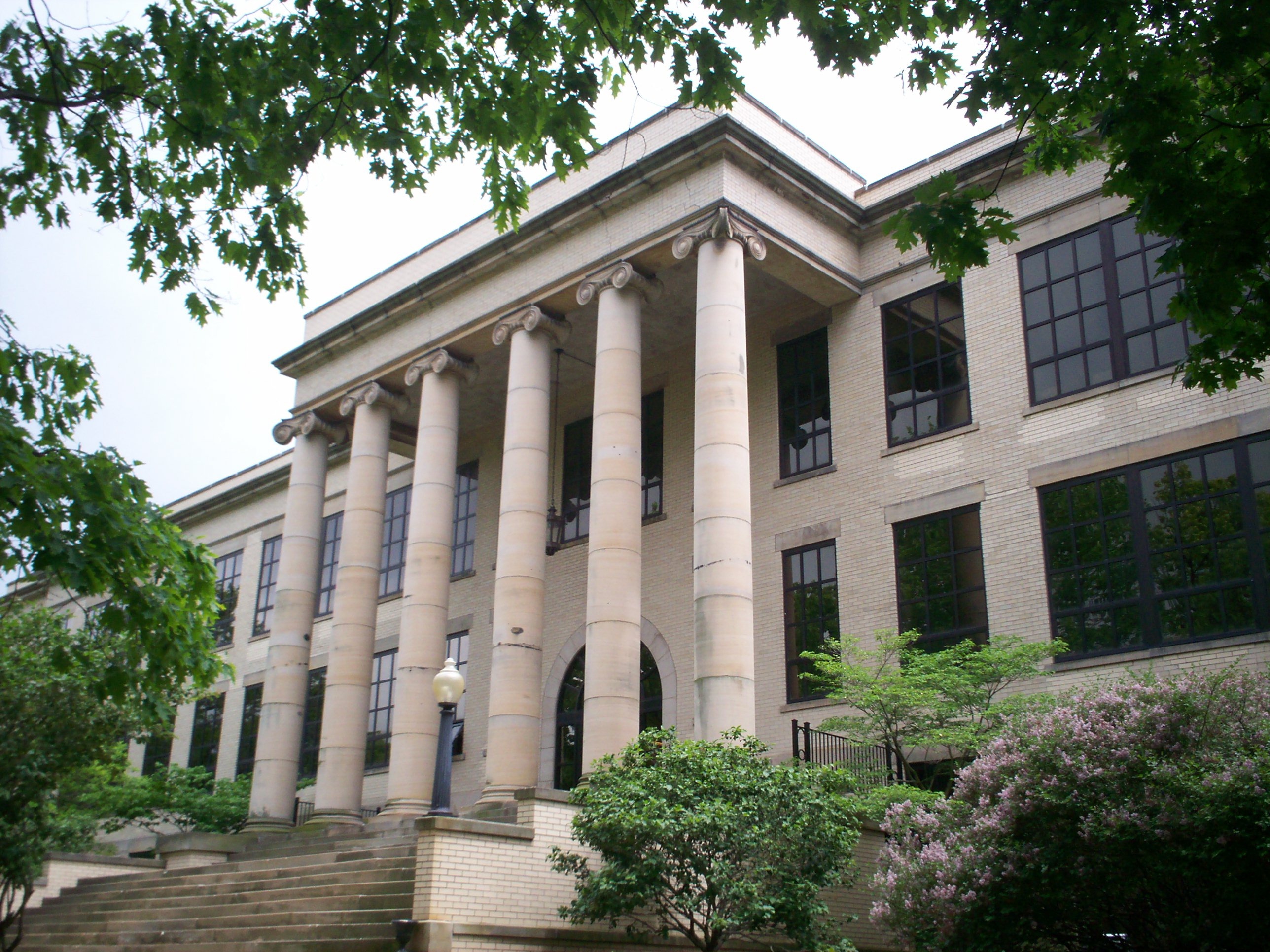 View of Merrill Hall, the oldest building on the campus of Kent State University in Kent, Ohio. Construction began in 1912 and the building opened in the fall of 1913.